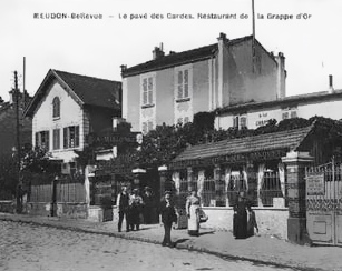 Scan of an old postcard of Pavé des Gardes - Restaurant la Grappe d'Or - Meudon - France.